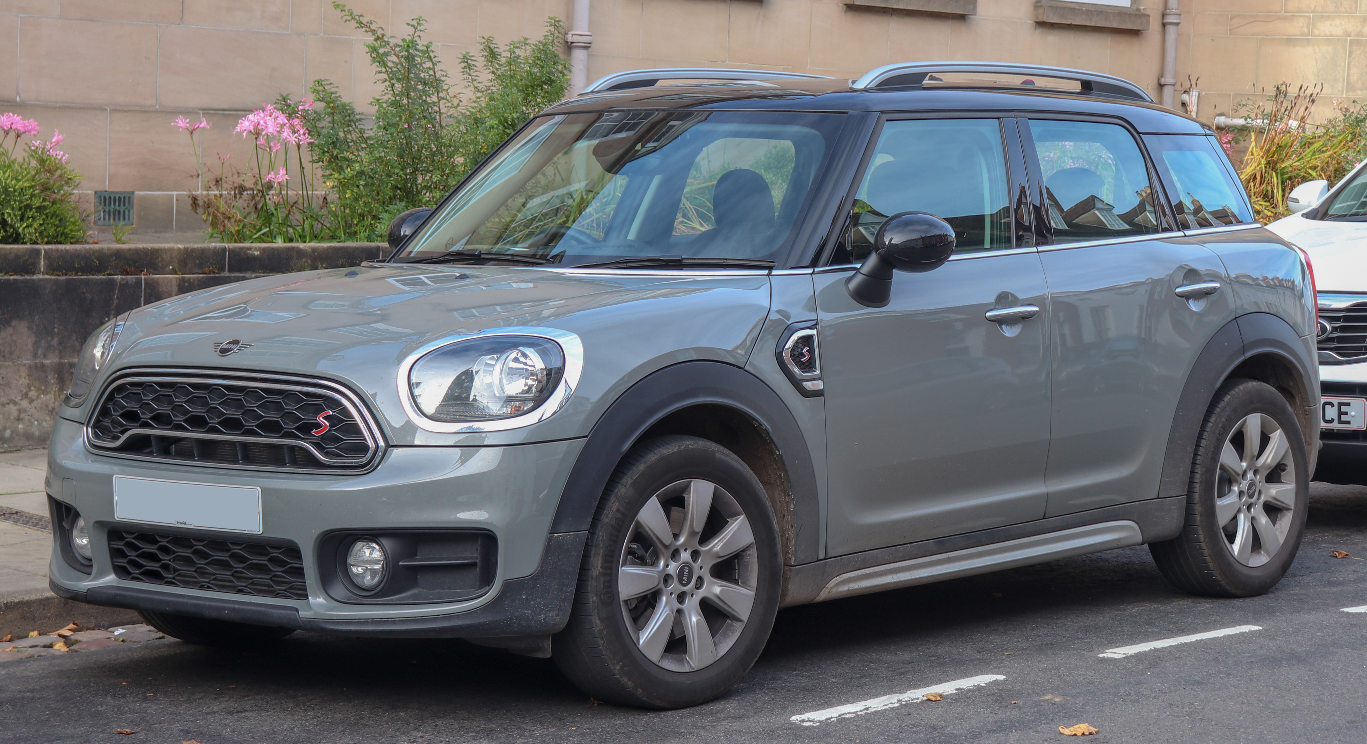 2018 Mini Countryman Cooper S 2.0 Front Taken in Warwick